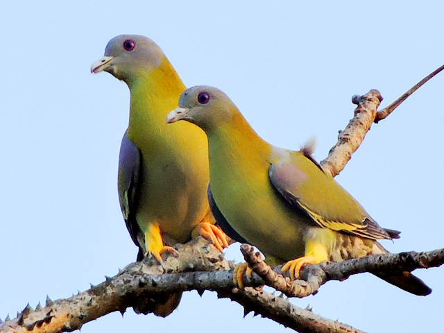 Pair of Yellow-footed green pigeon (Treron phoenicoptera)